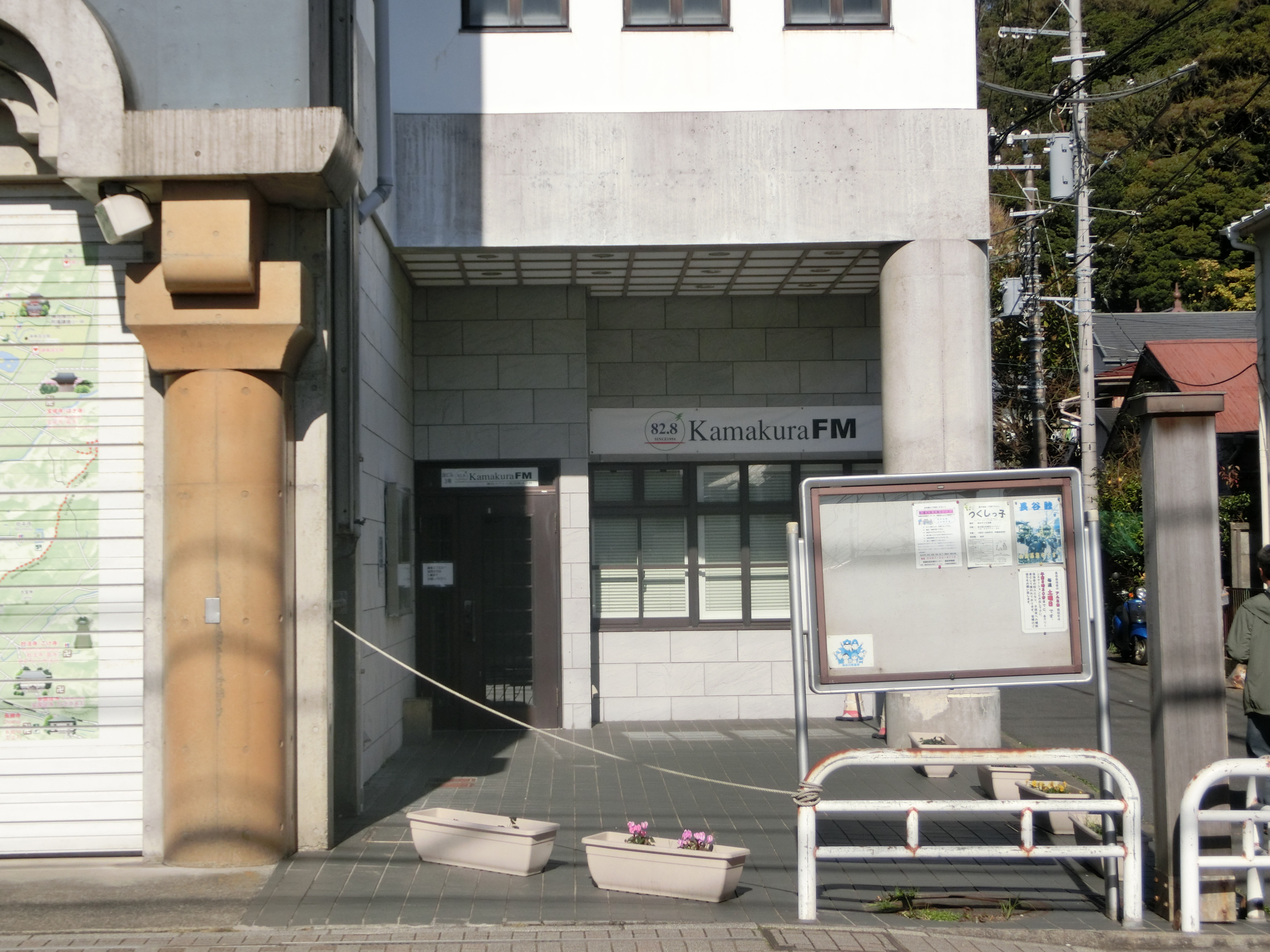 Kamakura FM Station